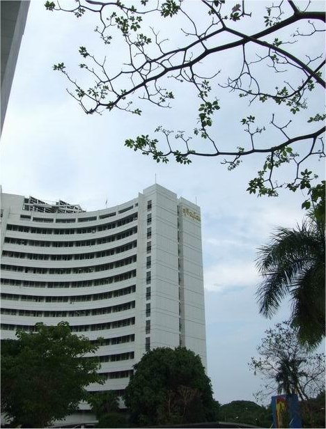 Medical Faculty Building -- Chiang Mai University